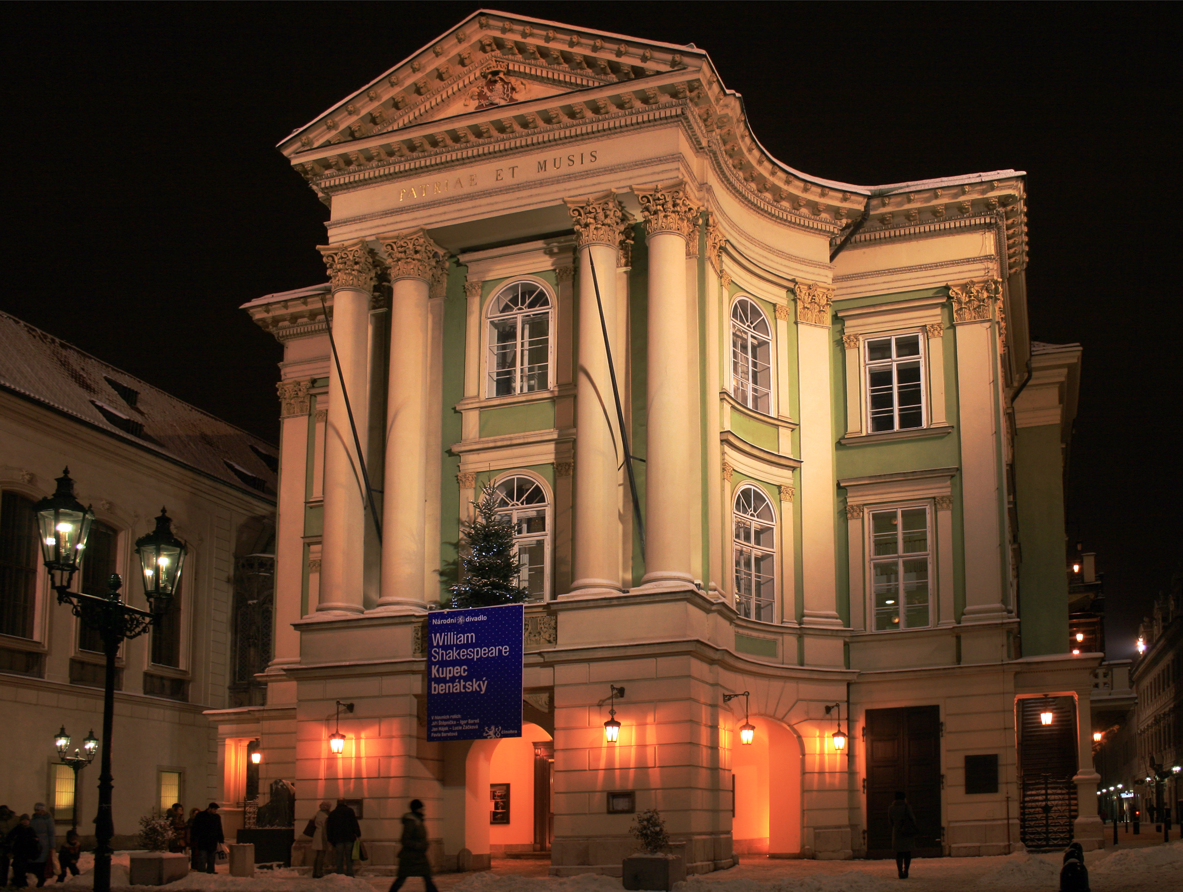 Estates Theatre in Prague under snow, winter 2010